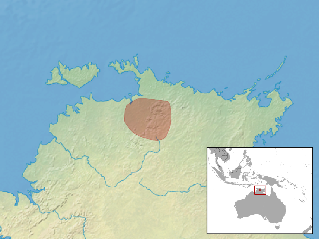 geographic distribution of Ctenotus gagudju